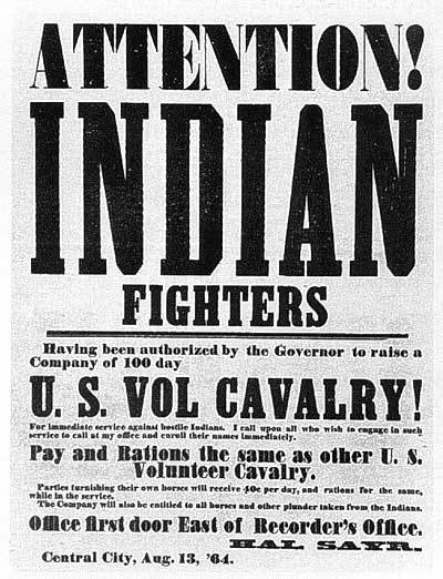 Recruiting poster for Chivington’s 100-day men, The Weekly Register-Call, Central City, Colorado, August 13, 1864.